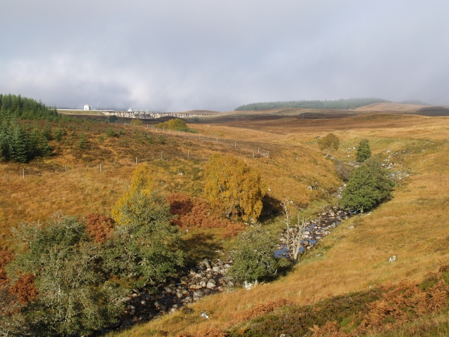 River Ericht In the distance is the Loch Ericht Dam.